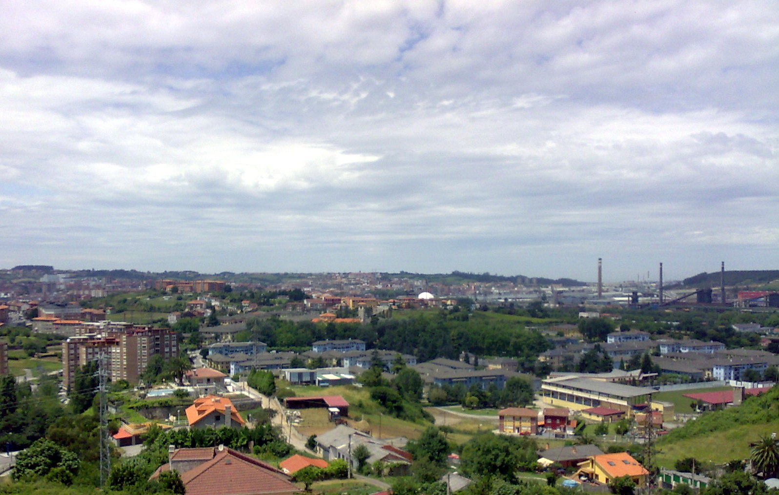 Avilés